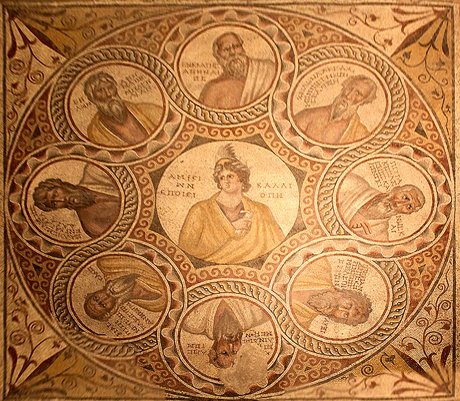 Seven Sages Mosaic of Baalbek dating to the 3rd Century AD